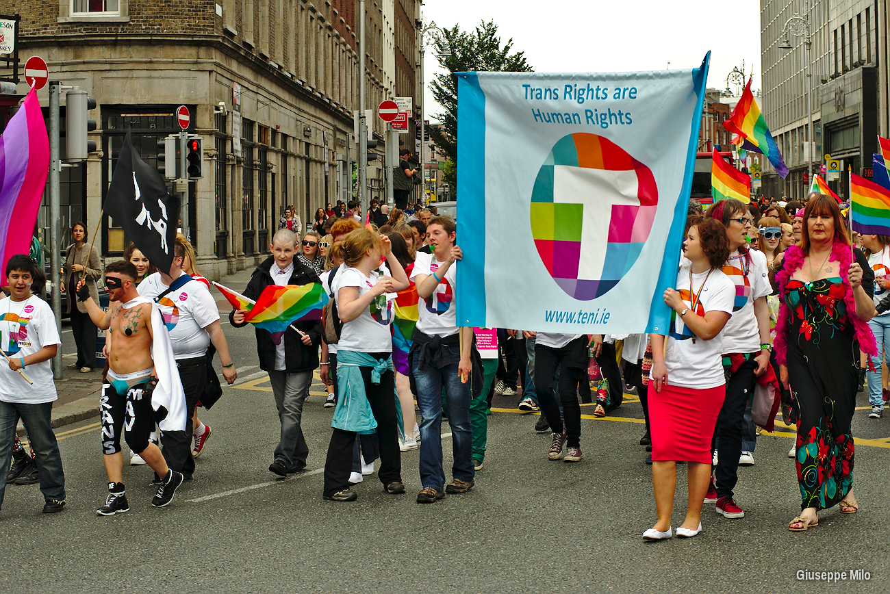 Dublin gay pride 2013